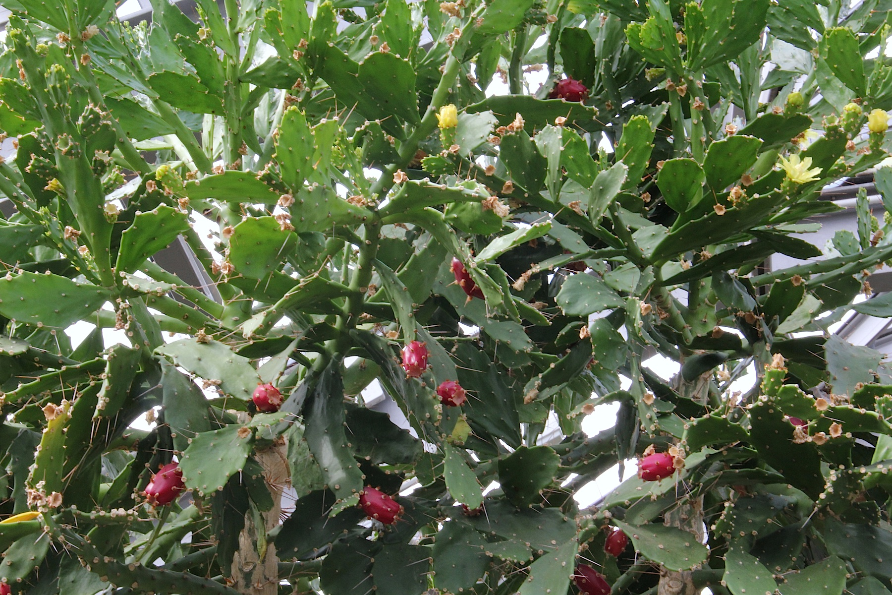 Brasiliopuntia brasiliensis